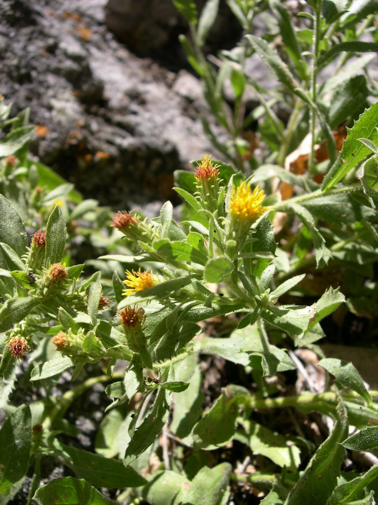 Haplopappus_aberrans (syn:Triniteurybia aberrans, Tonestus aberrans) in southwest Idaho